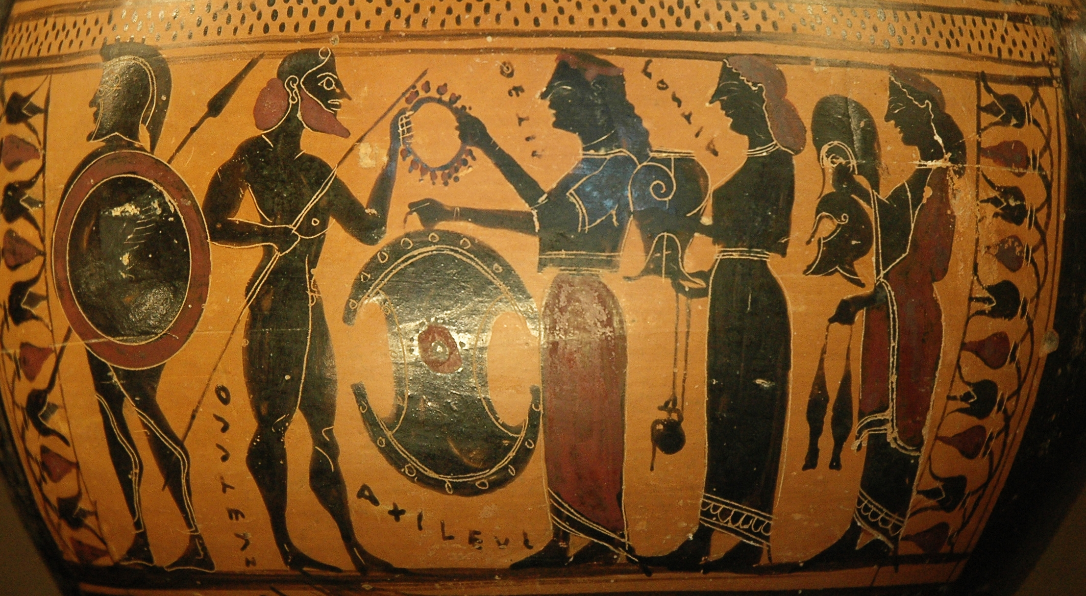 Thetis gives her son Achilles his weapons newly forged by Hephaestus, detail of an Attic black-figure hydria, ca. 575 BC–550 BC.